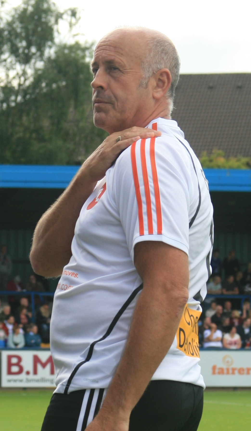 Martin Foyle playing in a charity match at Moss Rose, Macclesfield on 6 September 2015